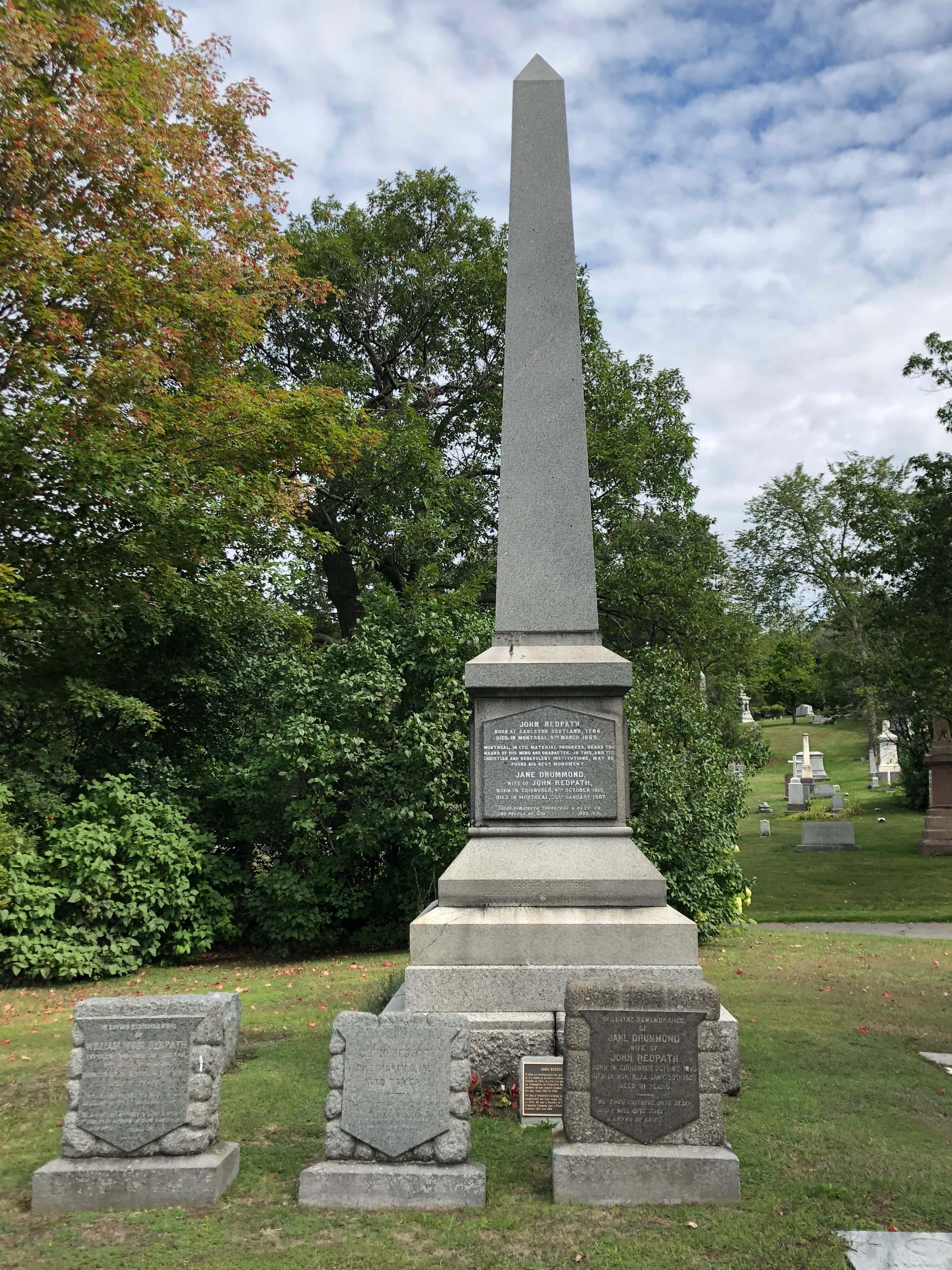 Funeral monument of Canadian businessman John Redpath. Mount Royal Cemetery, Montreal.